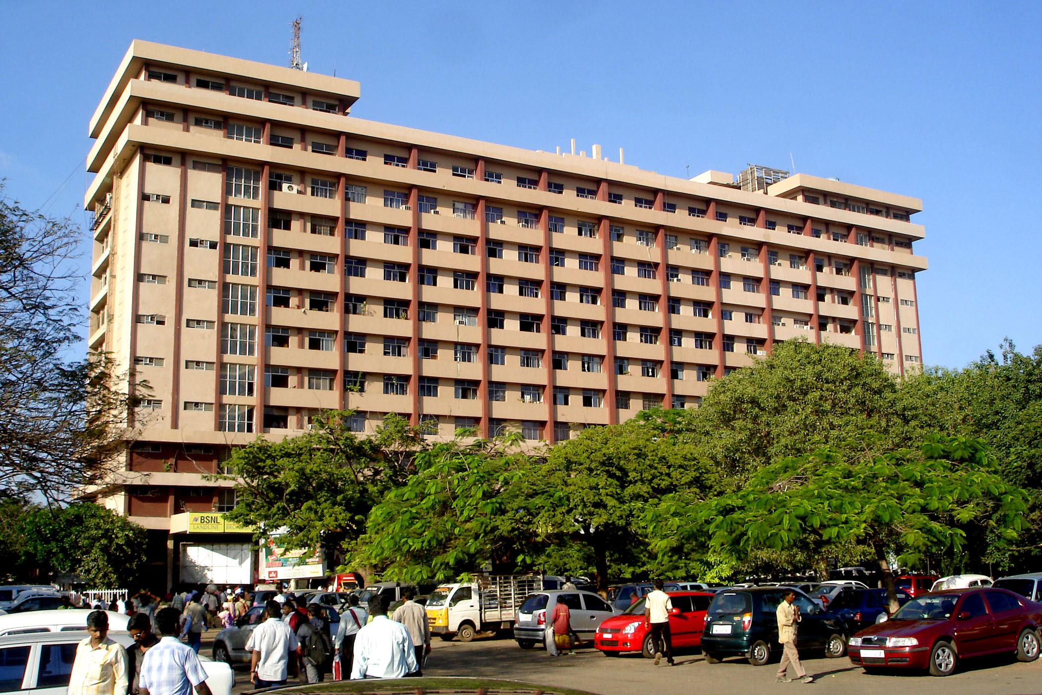 The suburban rail terminus and office complex at Chennai Central, better known as Moore Market Complex